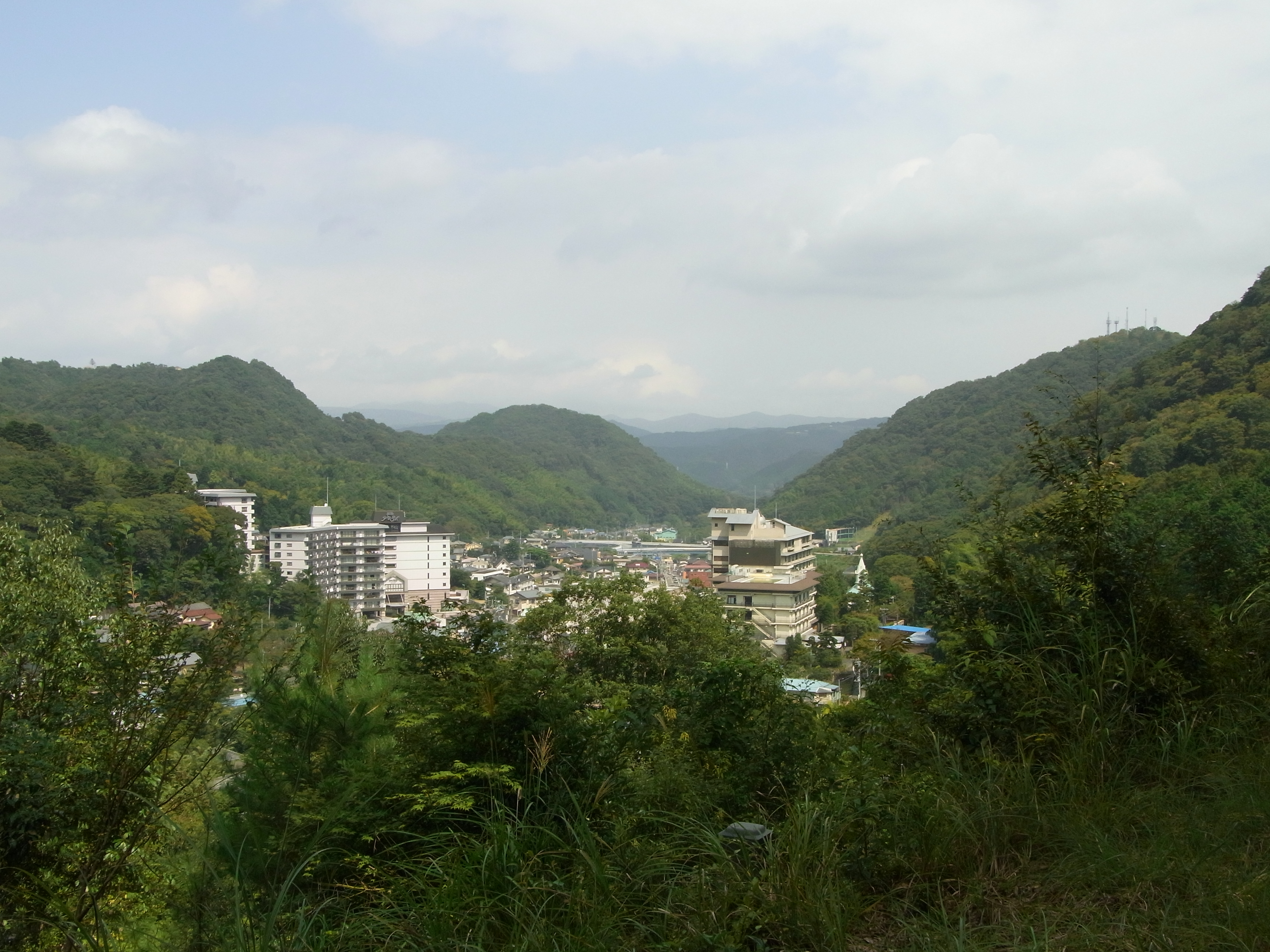 View overlooking Shuzenji Onsen.